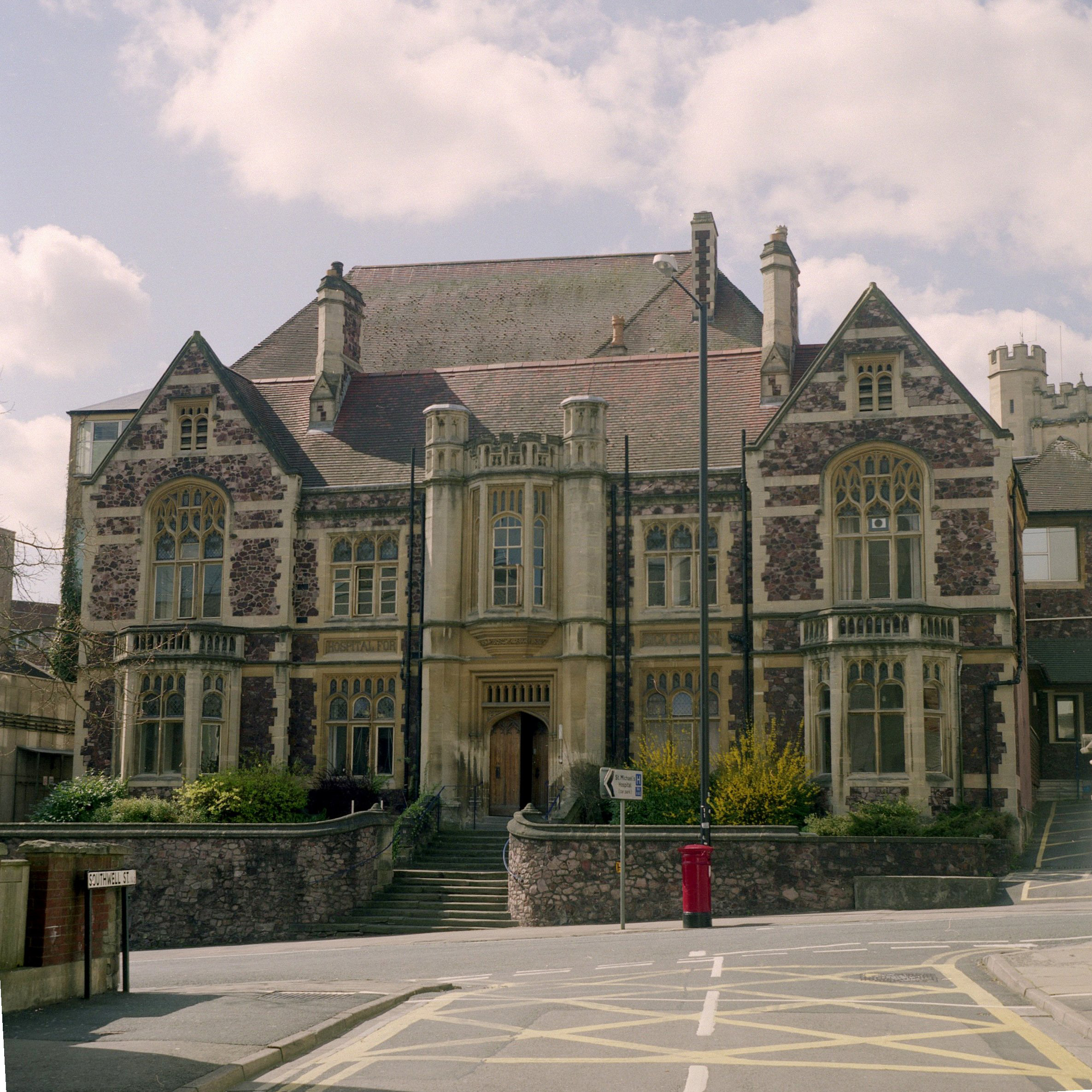 Former Children's Hospital, St Michael's Hill, Bristol.